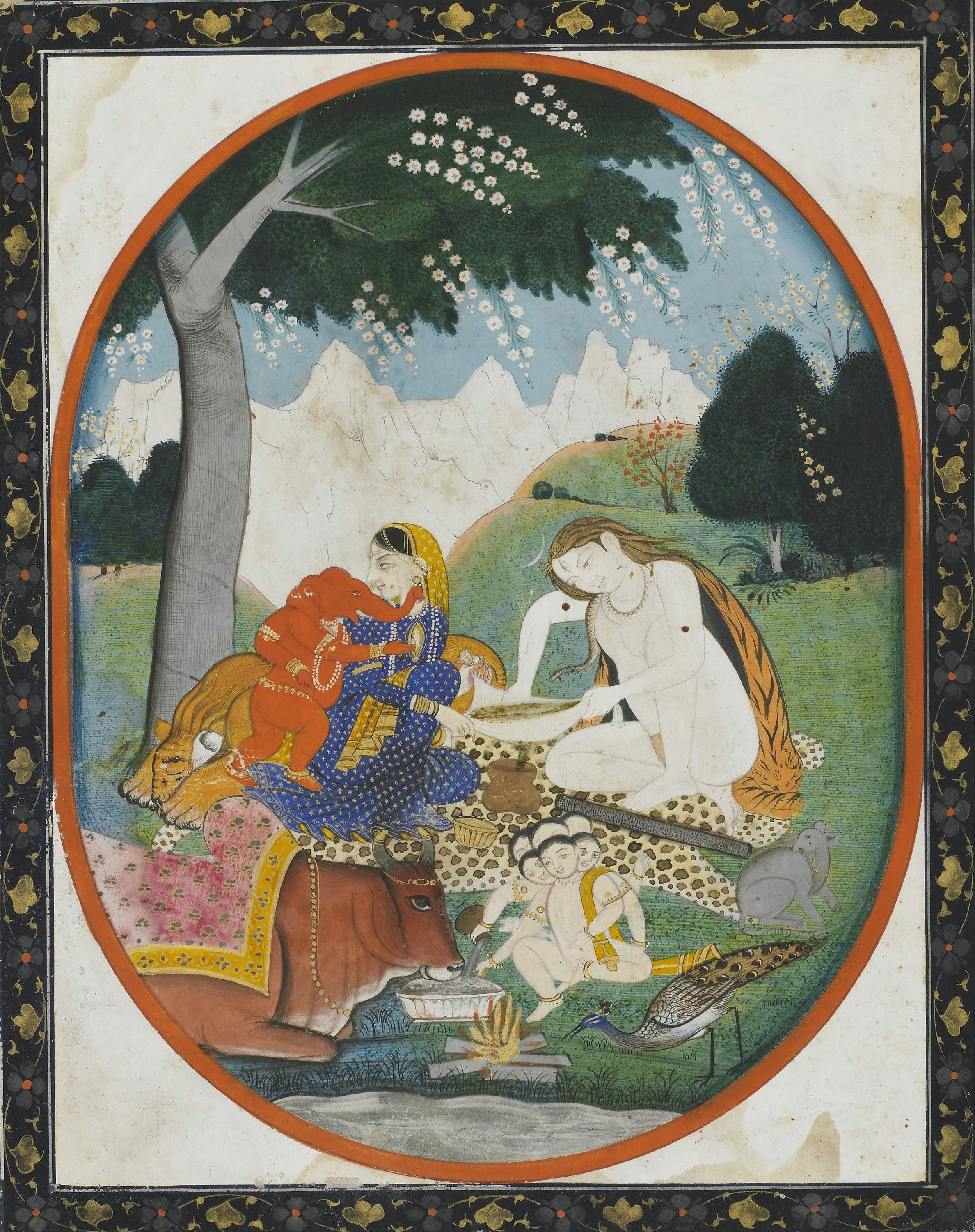 Shiva and Parvati with Their Children Ganesha and Karttikeya (Skanda) ca. 1830 Painting H: 20.1 W: 15.8 cm Kangra, Pahari Hills, India